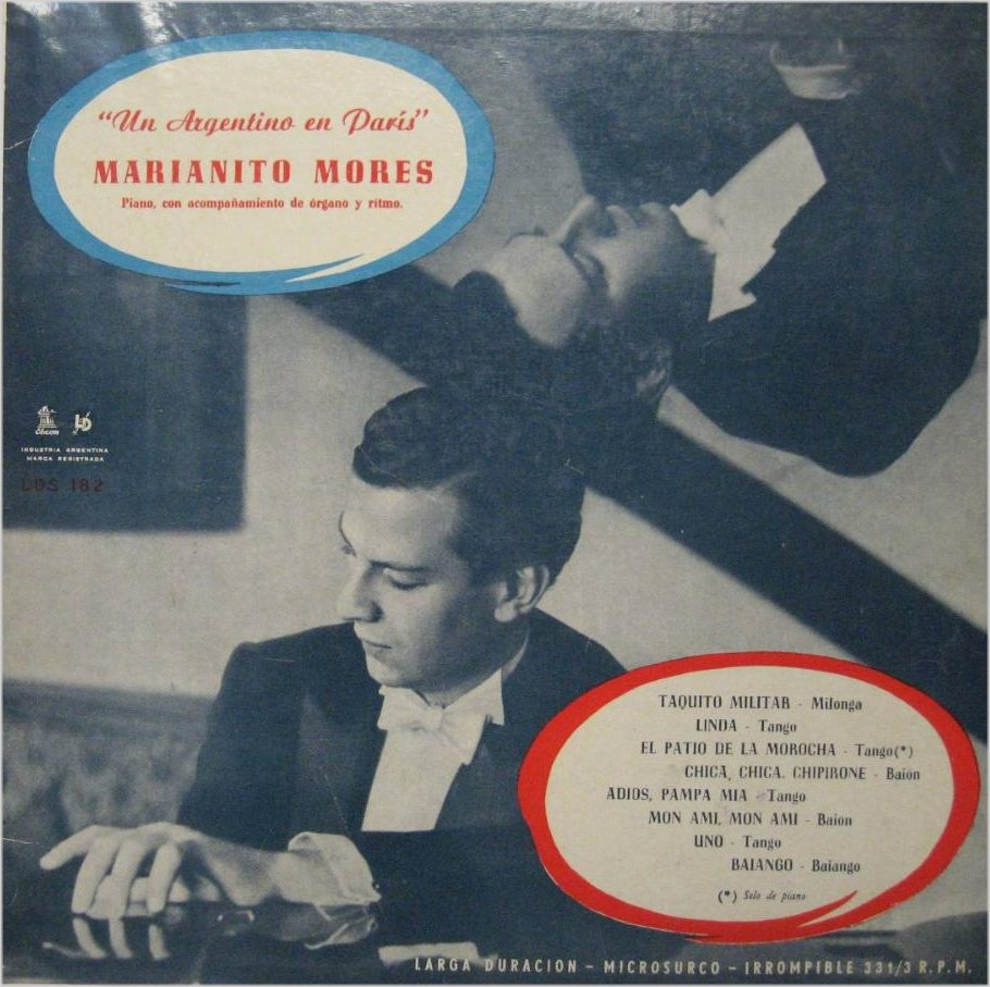 Un argentino en París, 1st album by Marianito Mores (Odeon LDS 182